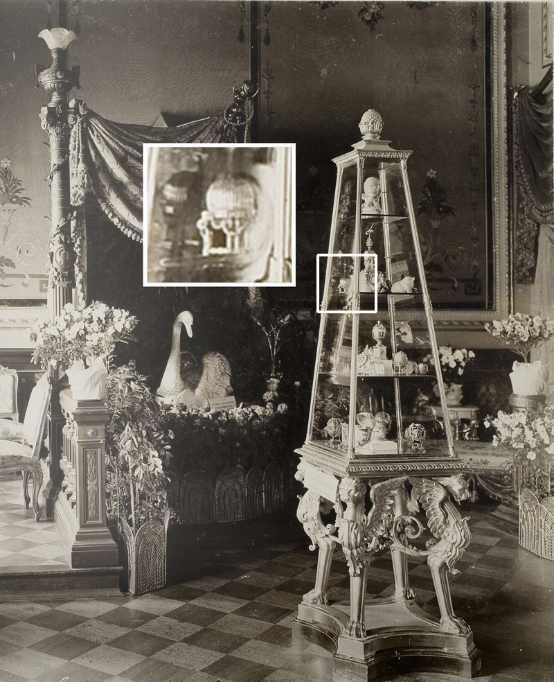 The Third Imperial Fabergé Easter Egg displayed among Marie Feodorovna's Fabergé treasures in the Von Dervis Mansion Exhibition, St. Petersburg, March 1902.